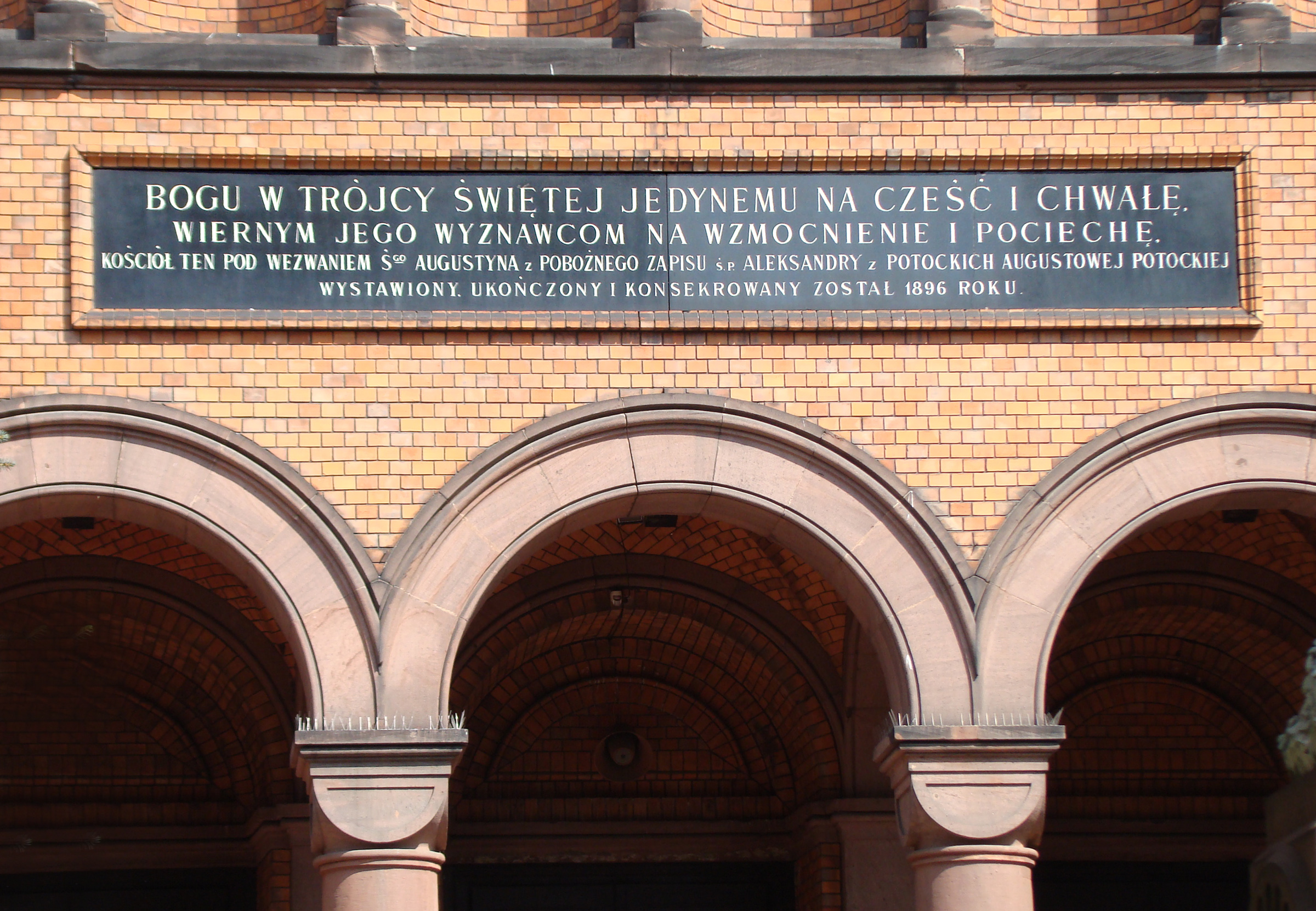 St. Augustine church, Nowolipki St., Warsaw